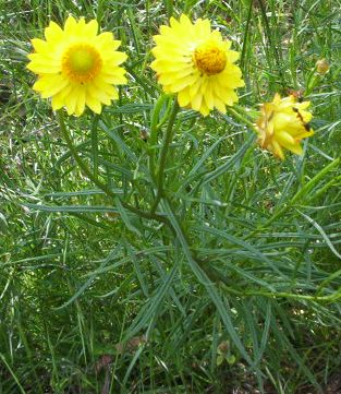 golden everlasting flower ( Bracteantha bracteata ) near Canberra, Australia